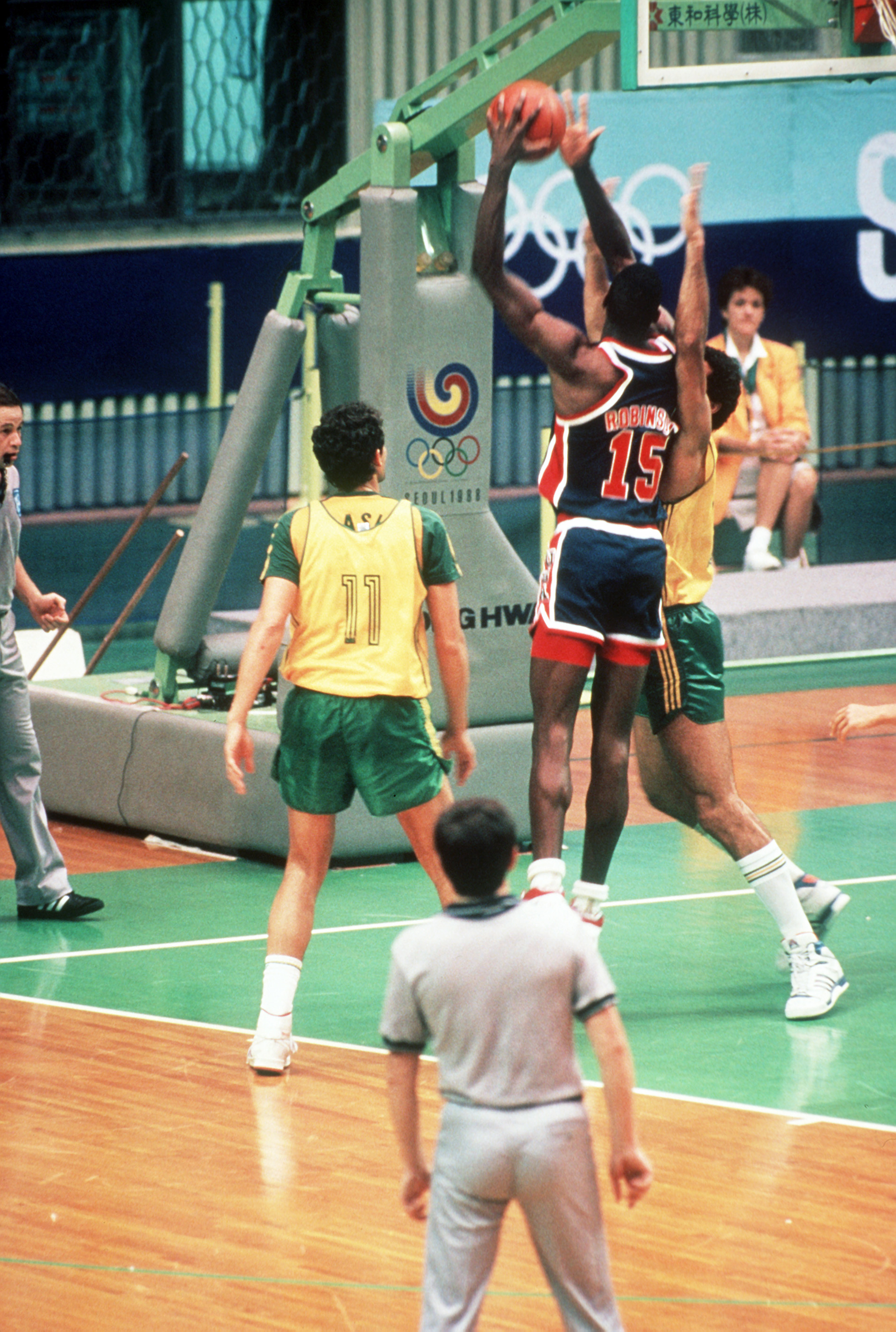 David Robinson of the US Olympic men's basketball team goes up for a shot during a preliminary round game against the Brazilian team.